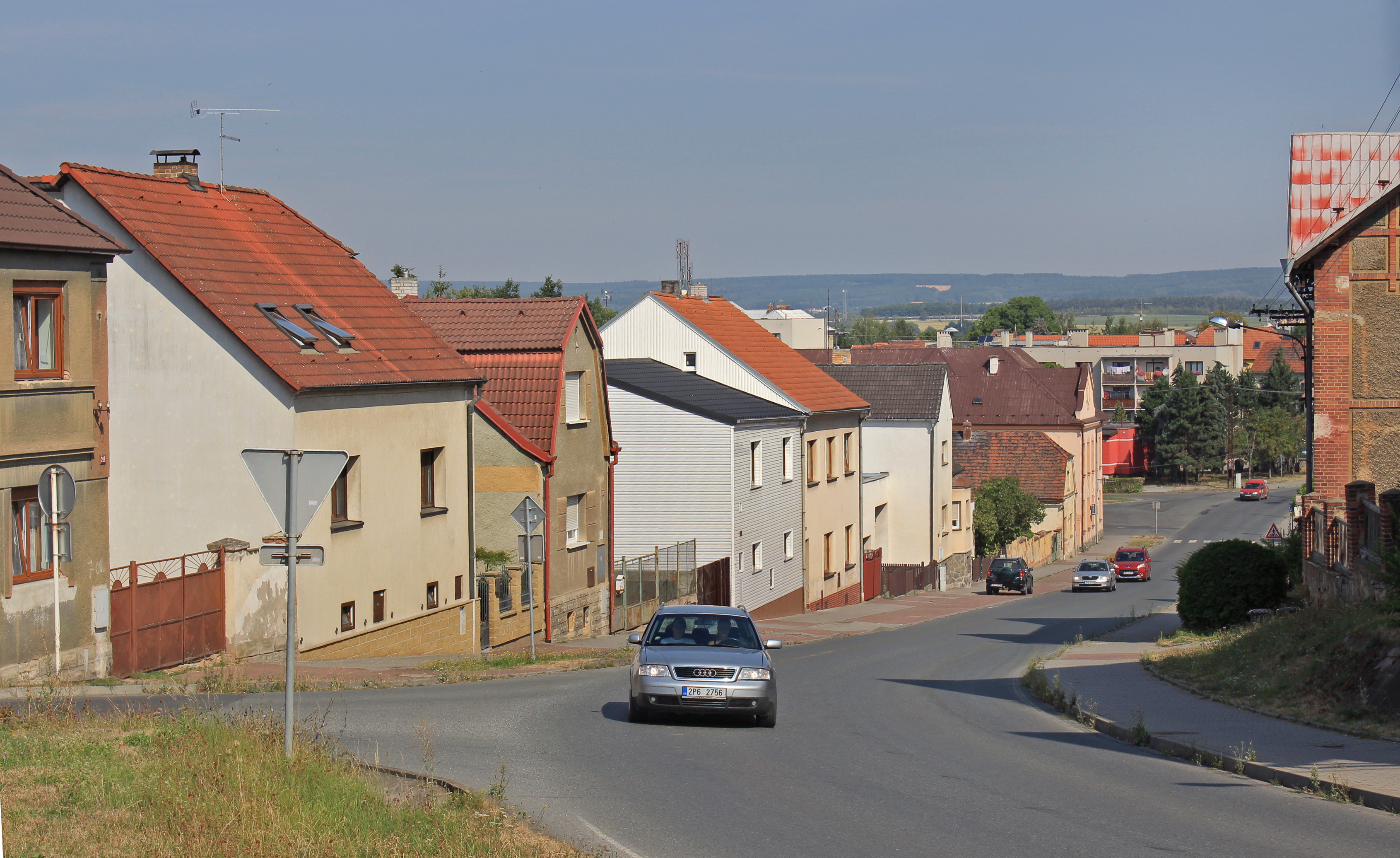 "5. května" street in Zbůch, Czech Republic.